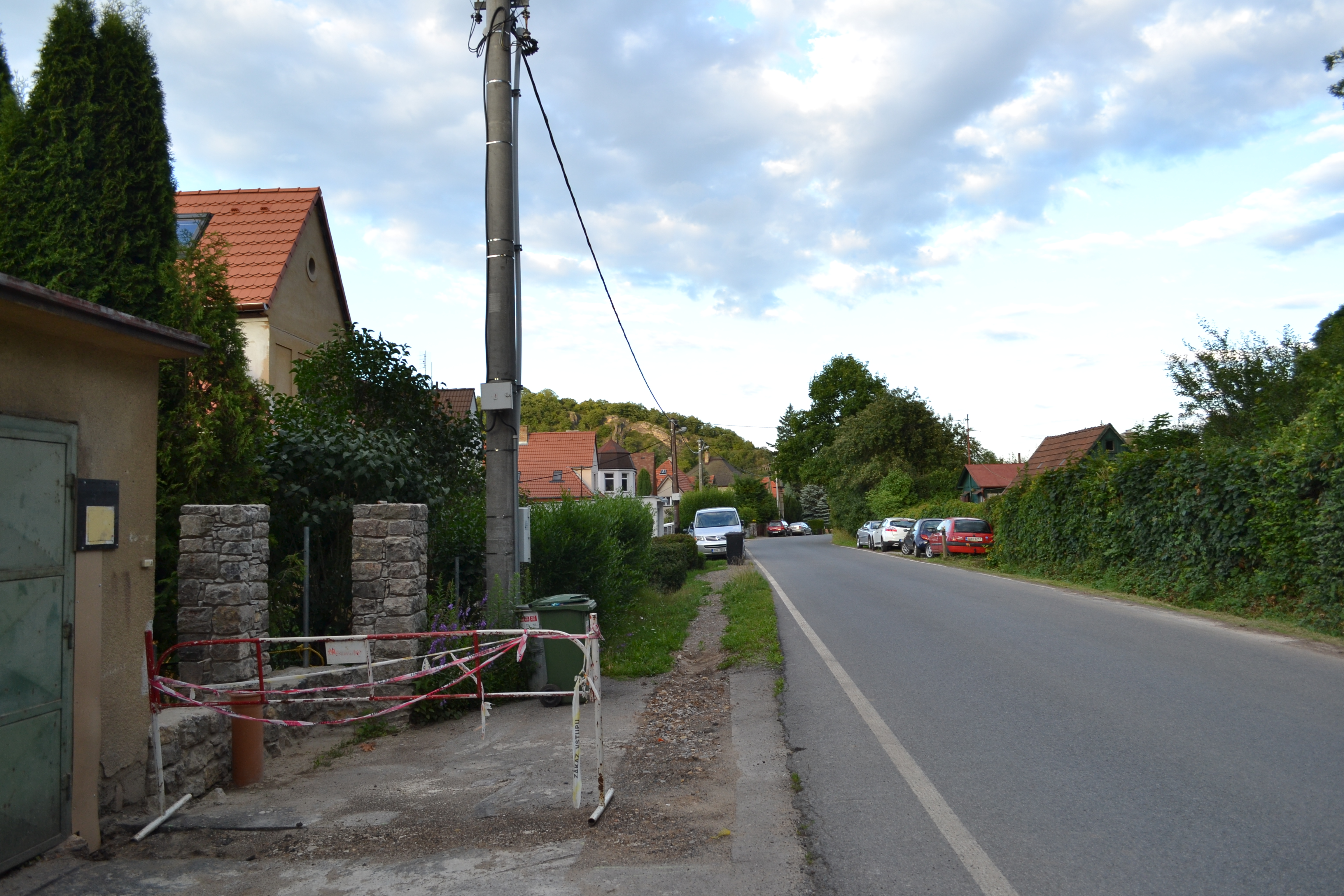 Kala, part of the village Třebotov, Central Bohemian Region, Czech Republic.